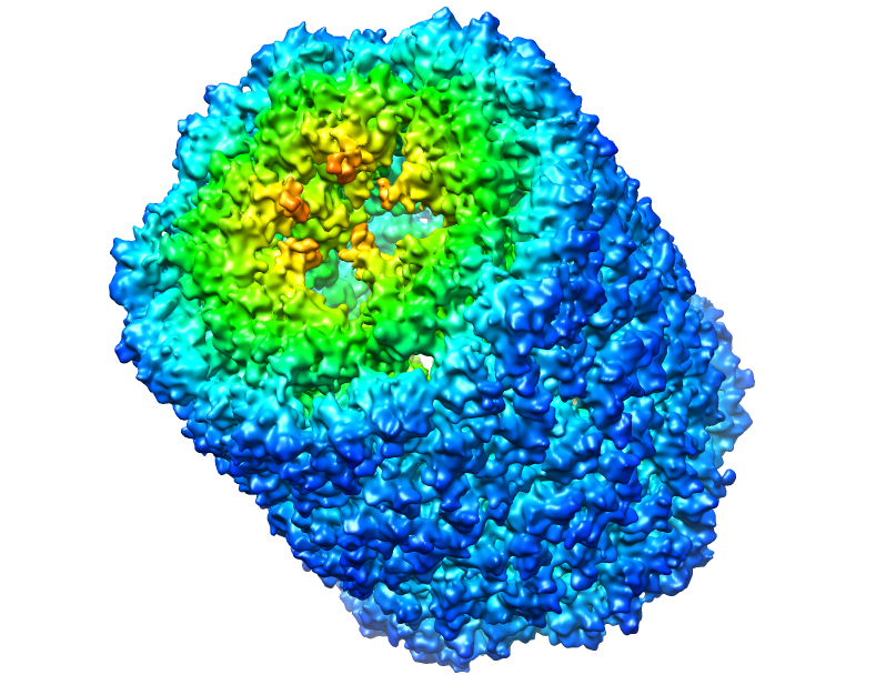 9Å cryoEM reconstruction of Keyhole limpet hemocyanin (KLH). EMDB entry 1569. Gatsogiannis & Markl J.MOL.BIOL. 2009